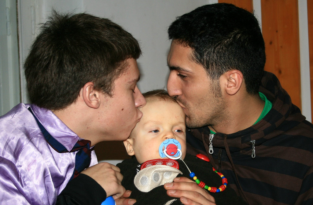 Gay Couple with Child